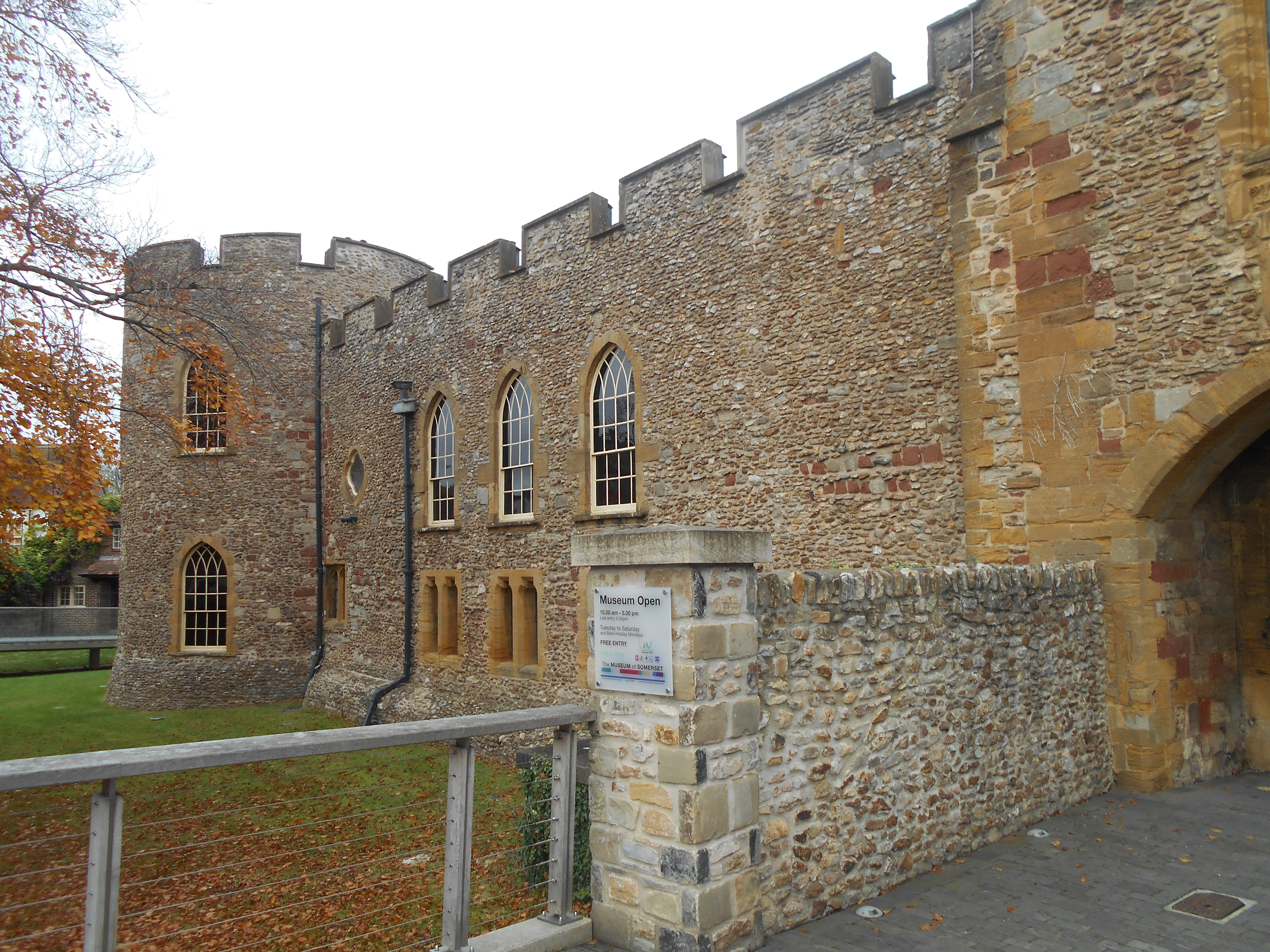 Taunton Castle, Taunton, Somerset.